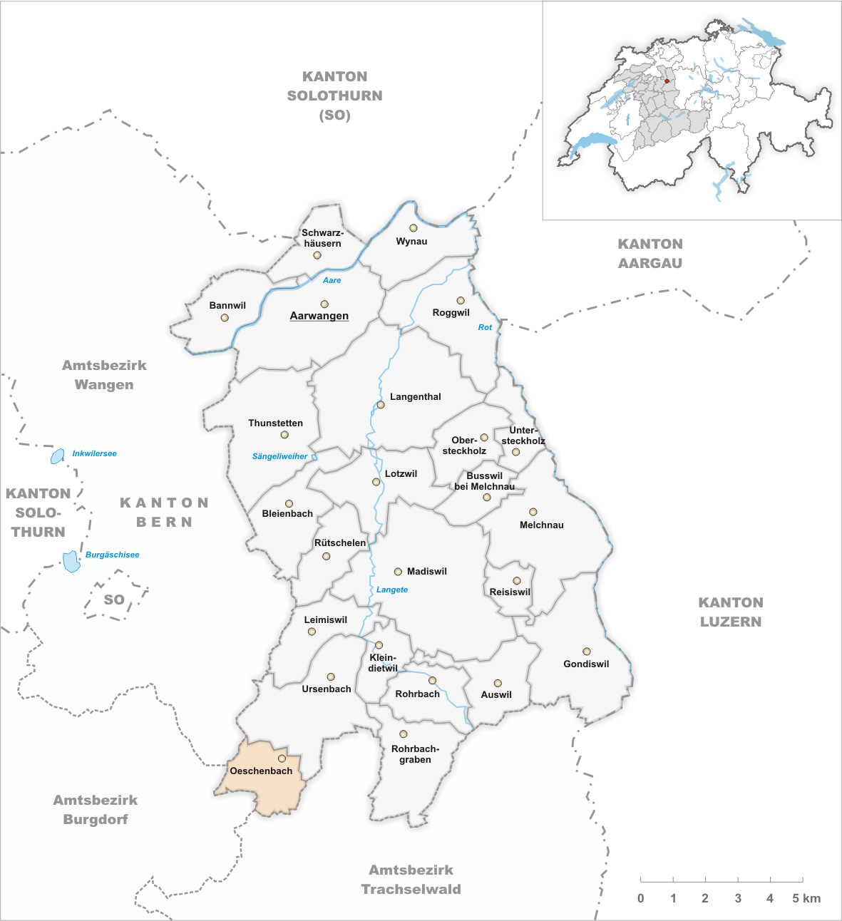 Municipality Oeschenbach